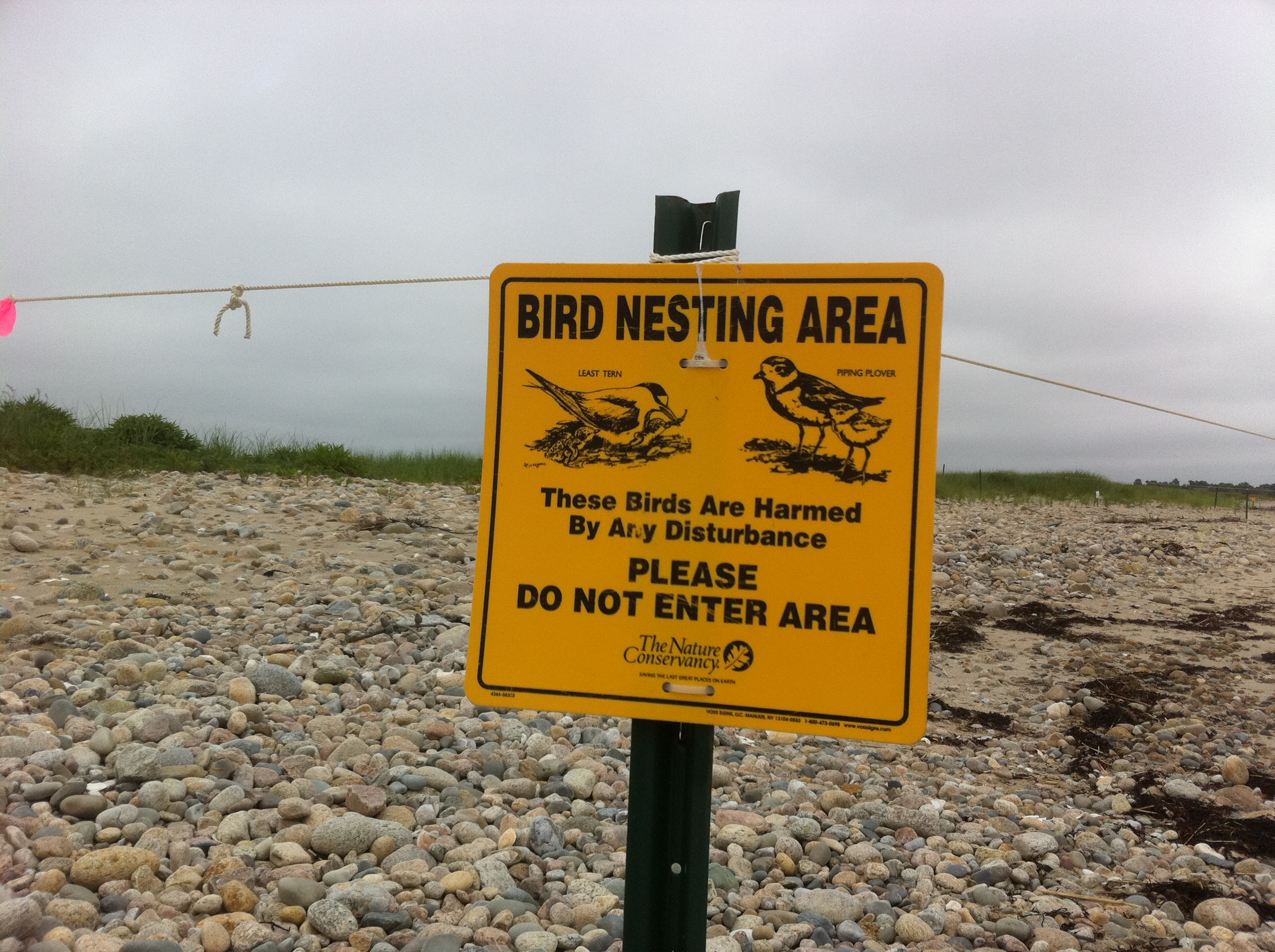 A Bird Nesting Area sign at Quicksand Pond.